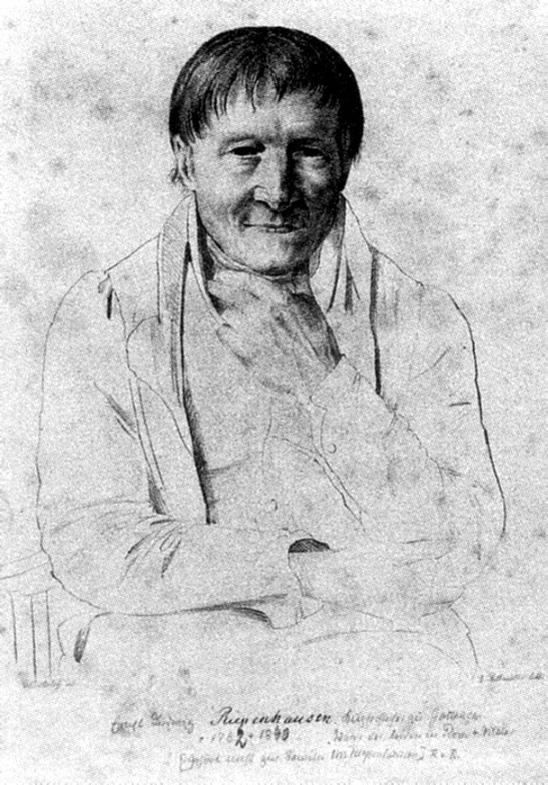 Portrait of the german copper-engraver Ernst Ludwig Riepenhausen (1762-1840)